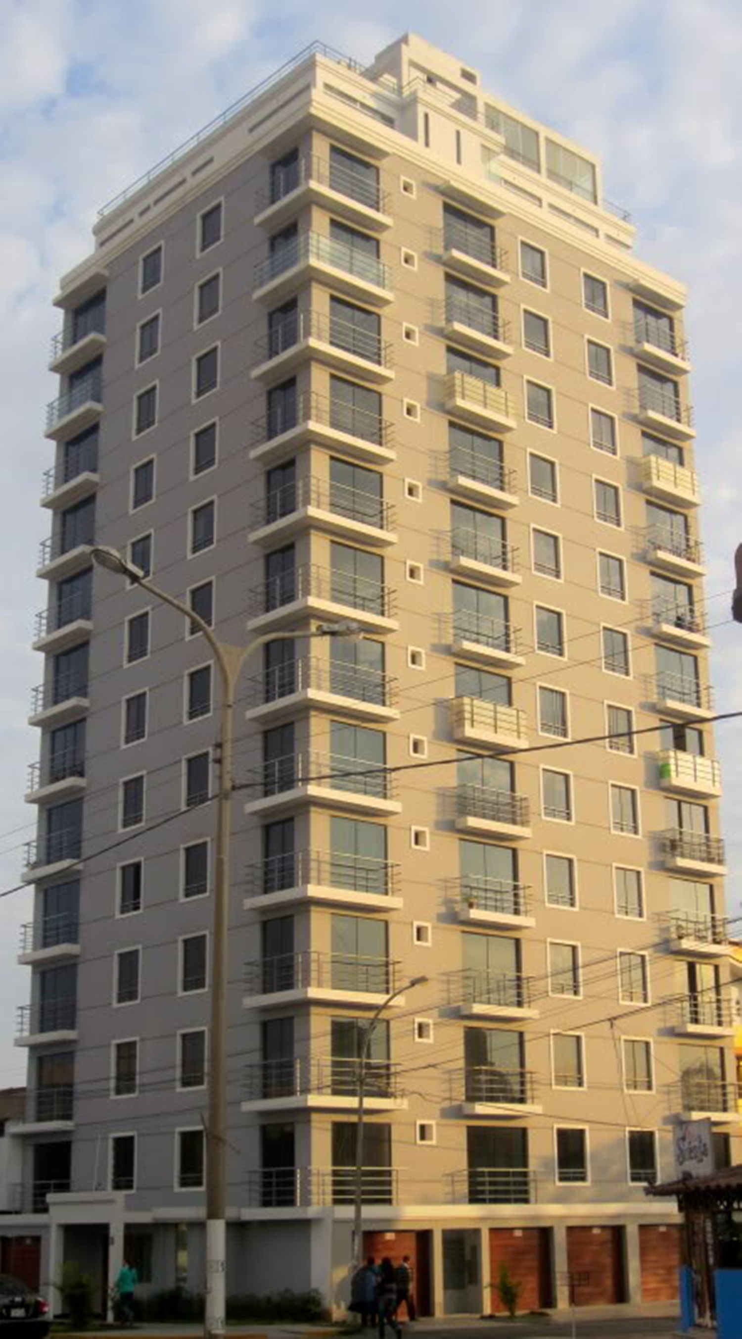 Valderrama Building in Trujillo city